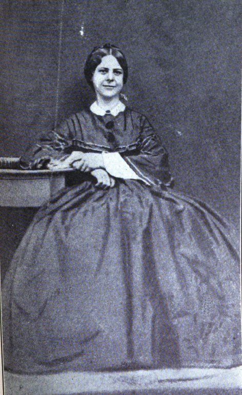 Photograph of Julia Brown Mateer shortly after her arrival in China in 1864.